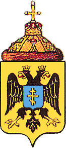 Coat of arms of Tsardom of Tauric Chersoneses